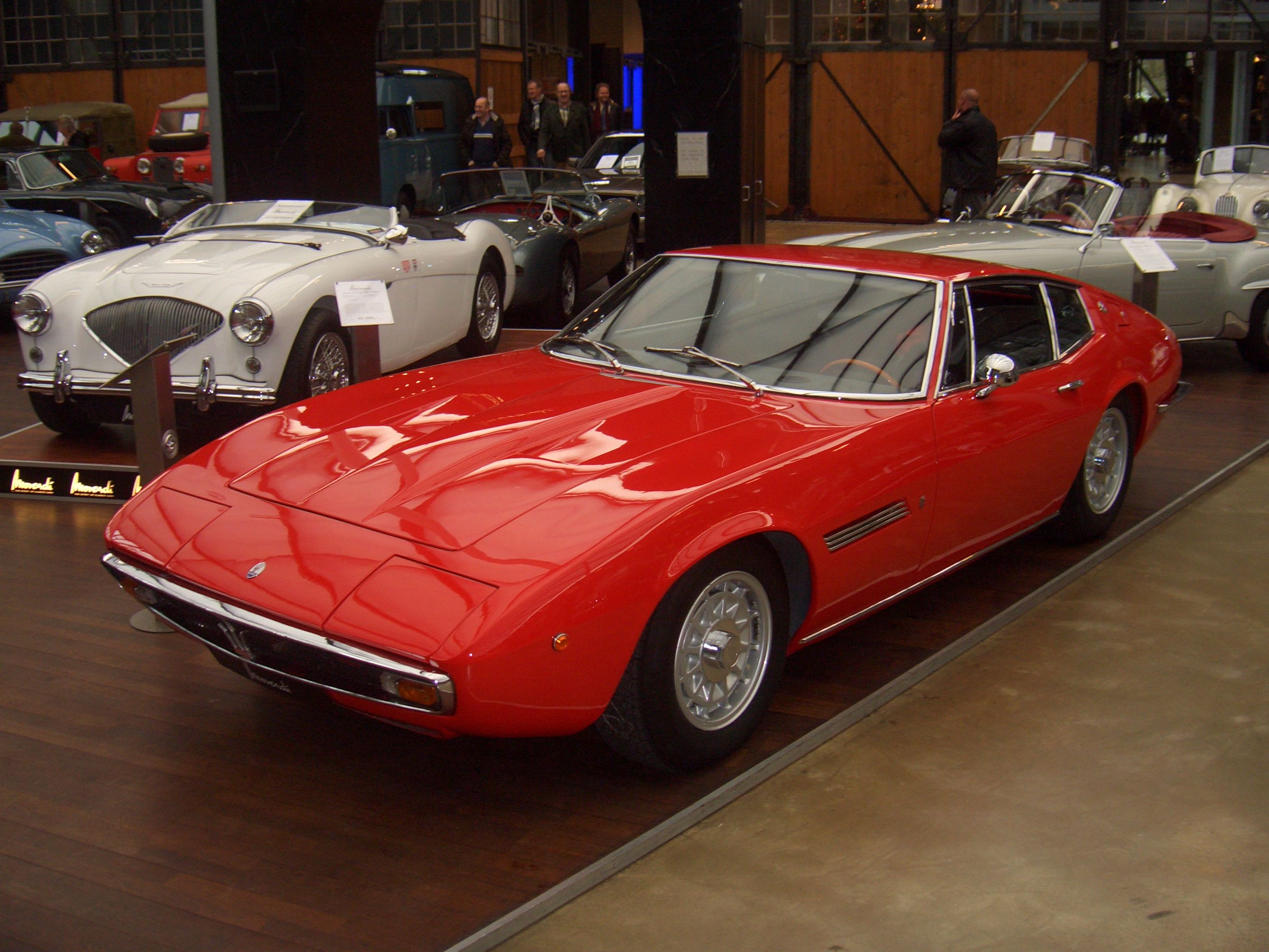 Maserati Ghibli Tipe 115, 1967, seen at CLASSIC REMISE, Dusseldorf, Germany